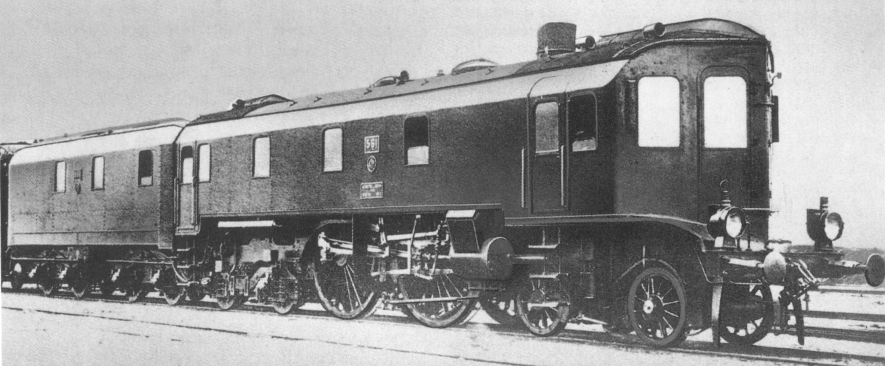 german cab-forward steam locomotive Preußische S 9 (Versuch)